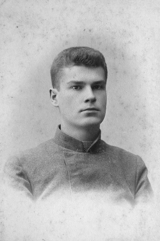 Photo of belarusian writer Maksim Bahdanovich